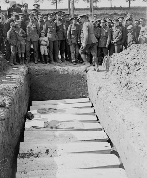 Funeral of Canadian Nursing Sisters who were killed in a German air raid. Etaples, France.